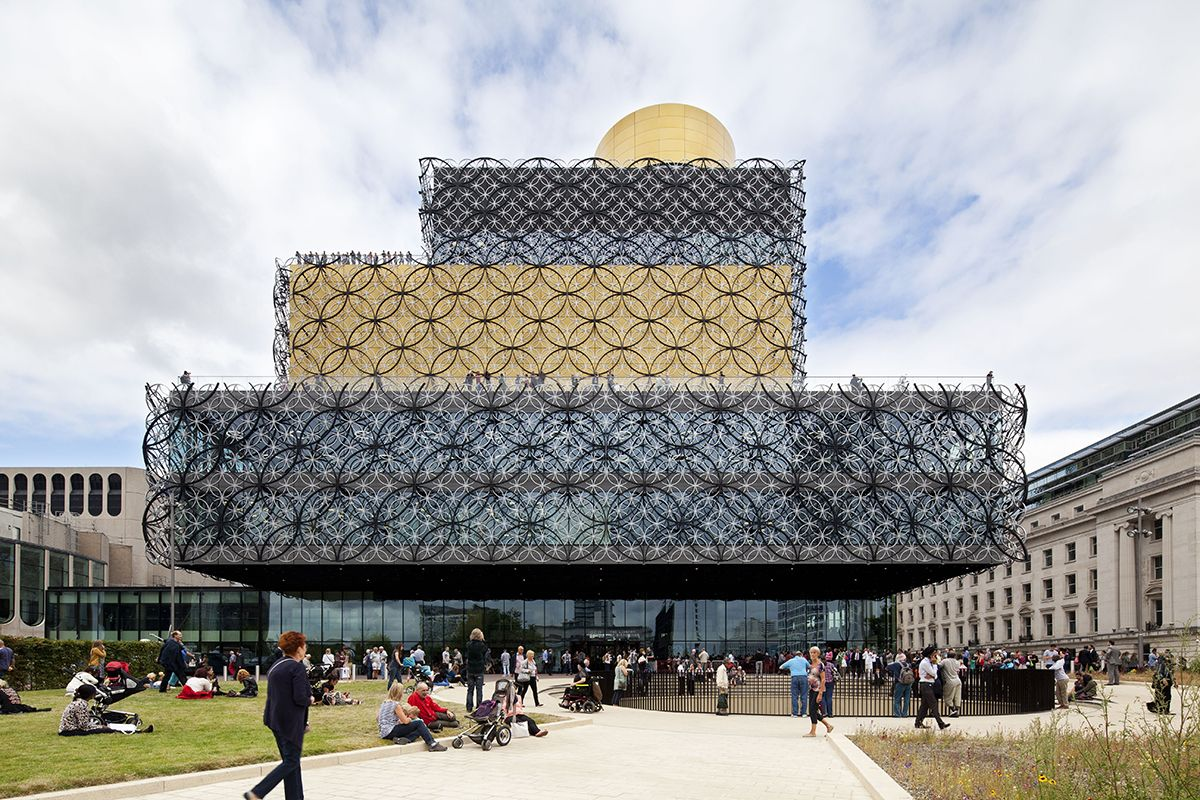 Public space